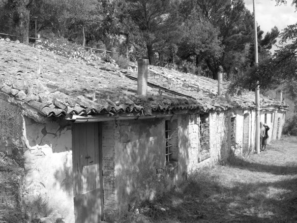 Tipical Greci building.